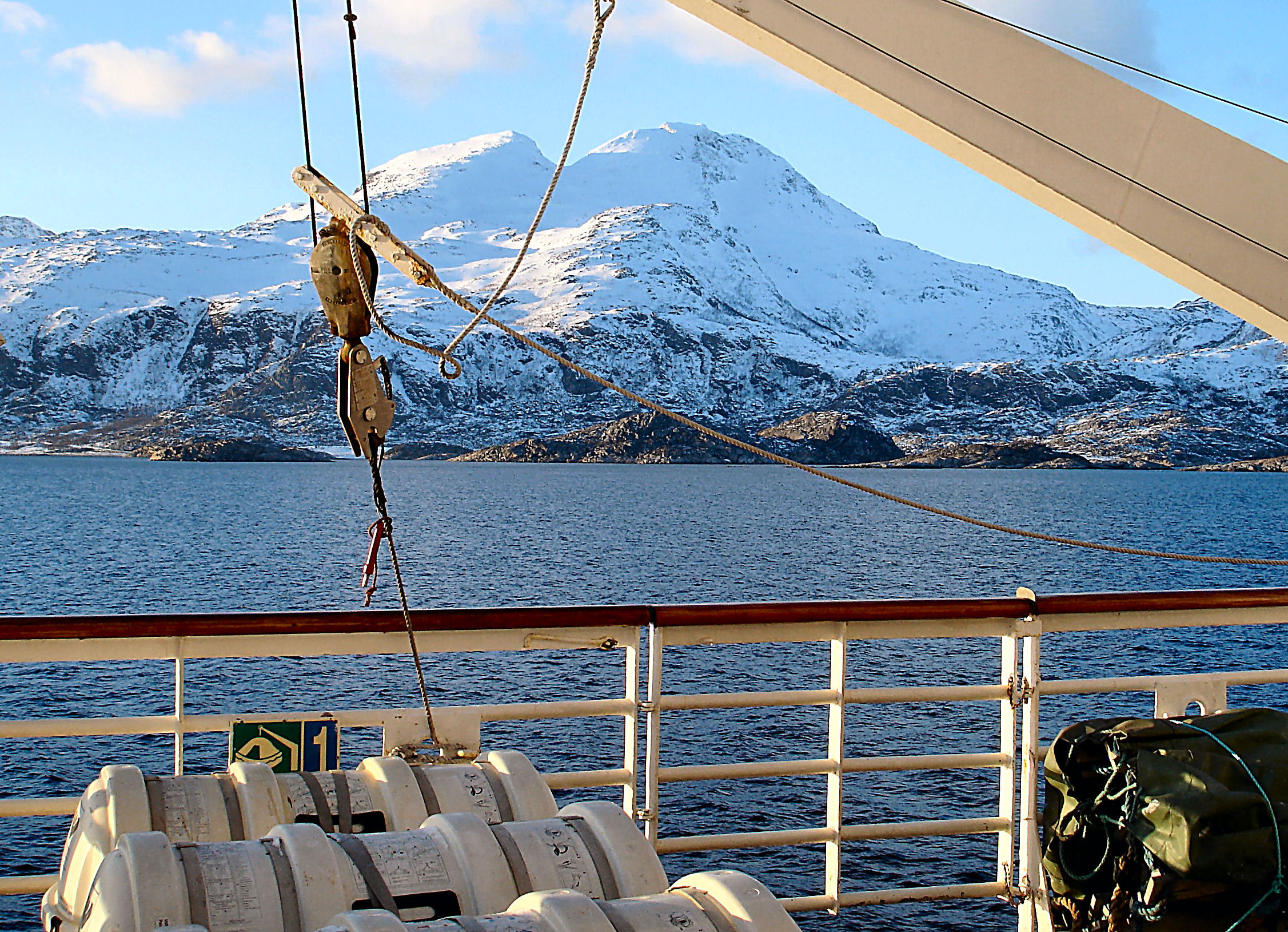 February 2005. Rypdalstinden (803m) and Kvigtinden (788m) on the island of Landego, west of Bodø, Norway.